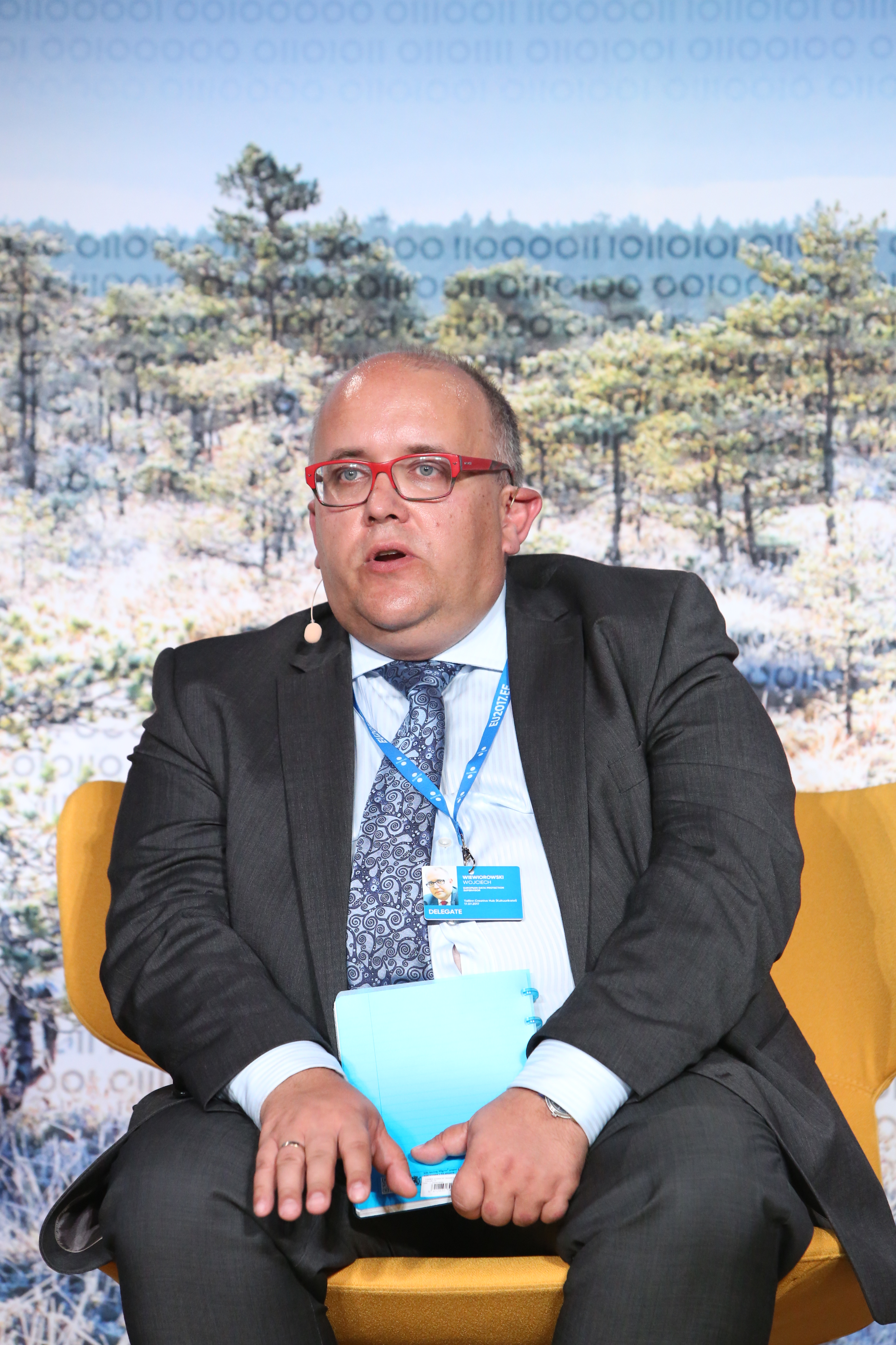 Wojciech Wiewiórowski, Assistant Supervisor, European Data Protection Supervisor